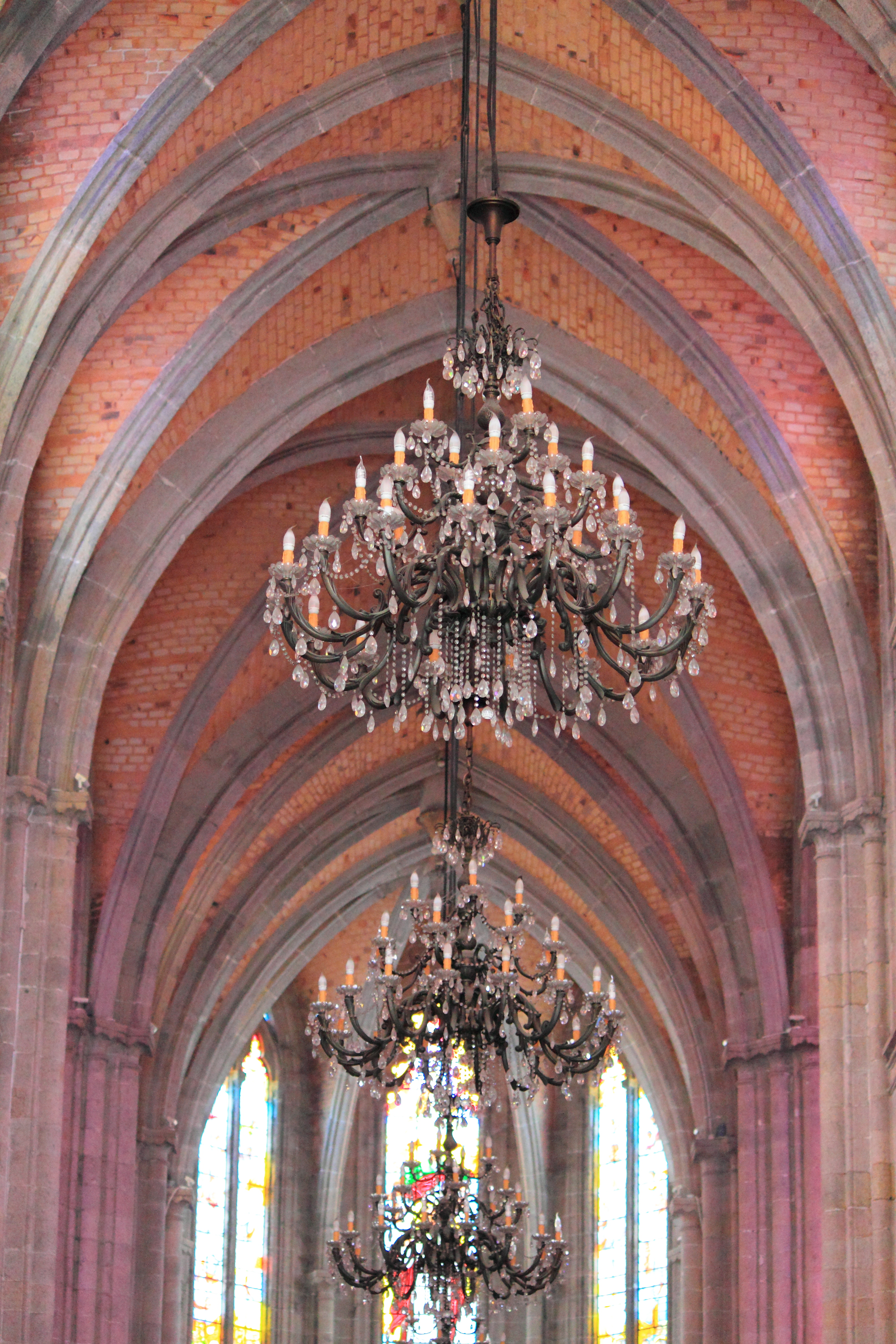 Sacred Heart Cathedral of Guangzhou，in Guangzhou, Guangdong, China.